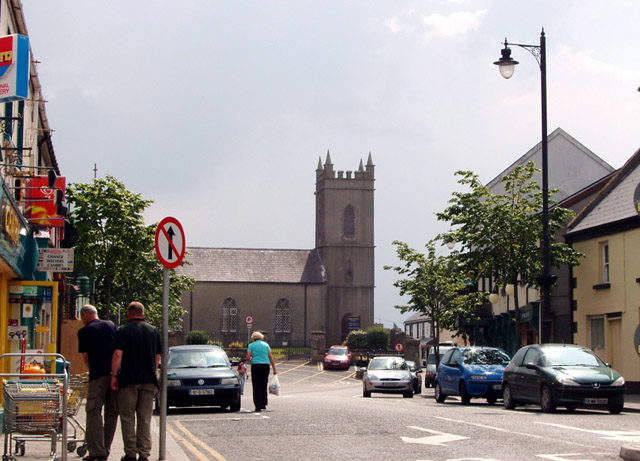 Church of Ireland church, Foxford